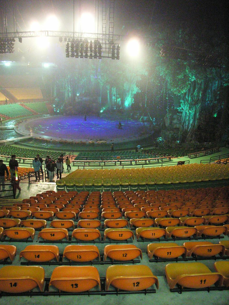 廣州番禺長隆歡樂世界長隆大馬戲